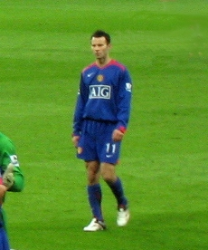 Ryan Giggs, Welsh footballer